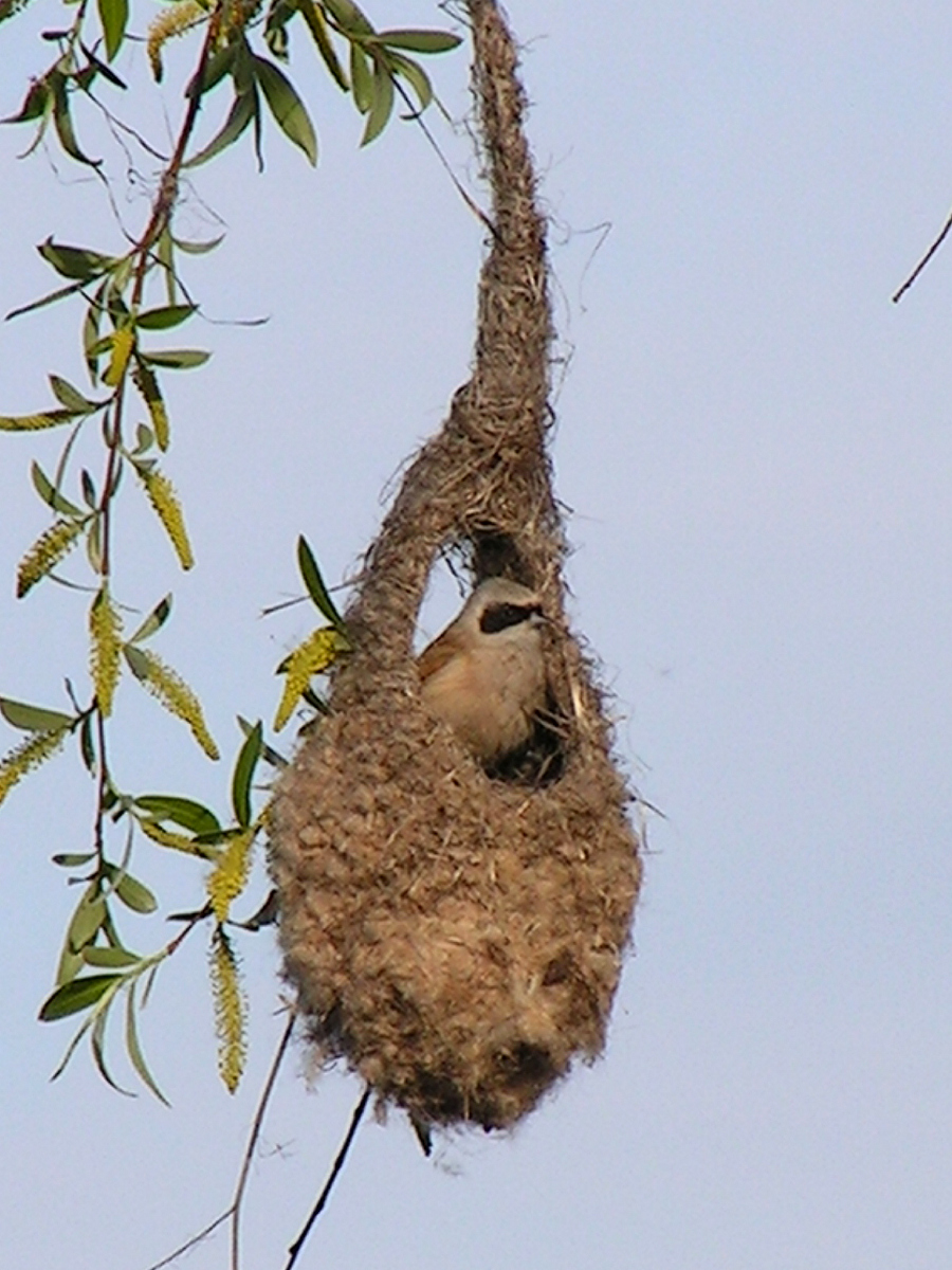 Remiz pendulinus (Linnaeus, 1758), incomplete nest